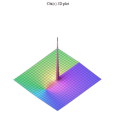 Chi(x) 3D plot